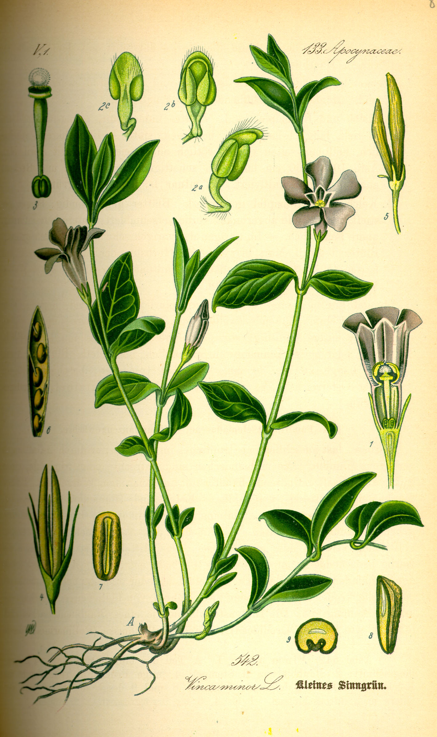 Name Vinca minor Family Apocynaceae